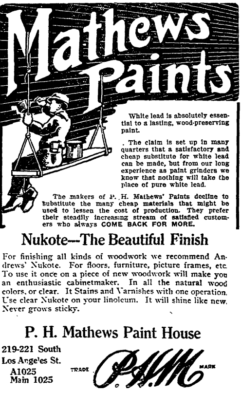 Advertisement for P.H. Mathews Paint House, Los Angeles, showing a man seated on an board painting exterior of building, with advertising text extolling virtues of the paints, 1912. Warehouse District.